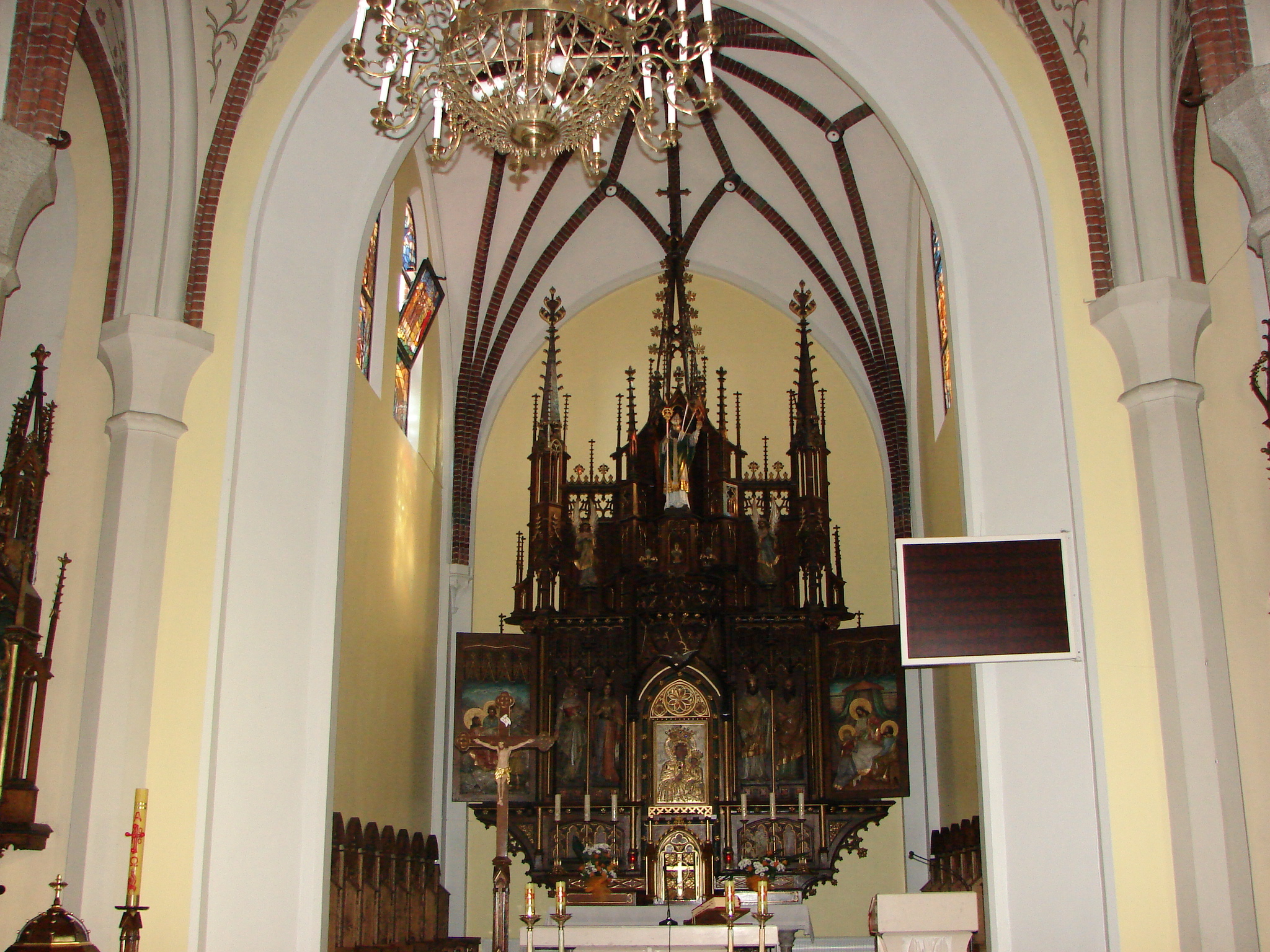 Church of Saint Adalbert in Elbląg - main altar